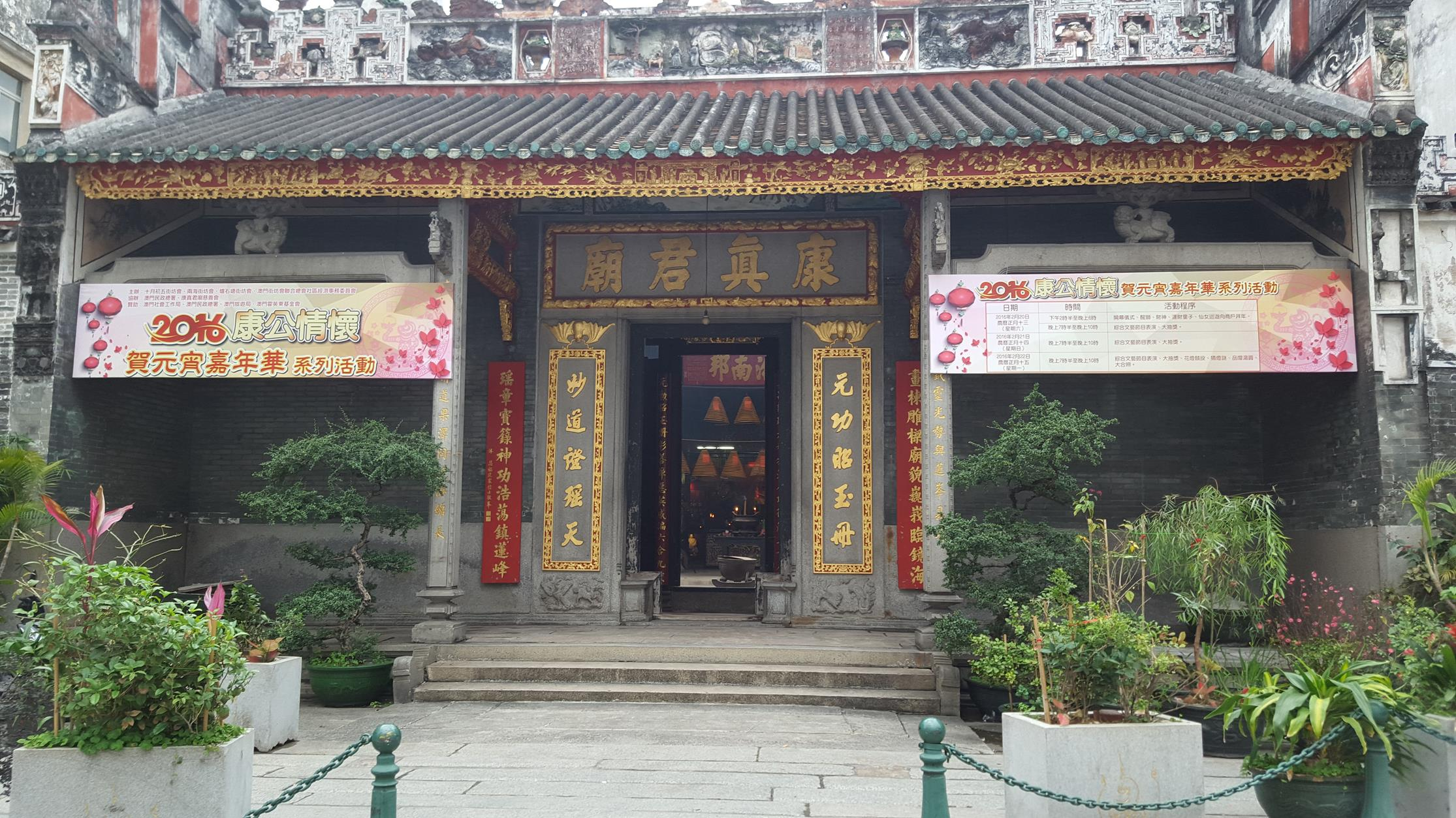 Temple of Hong Kun